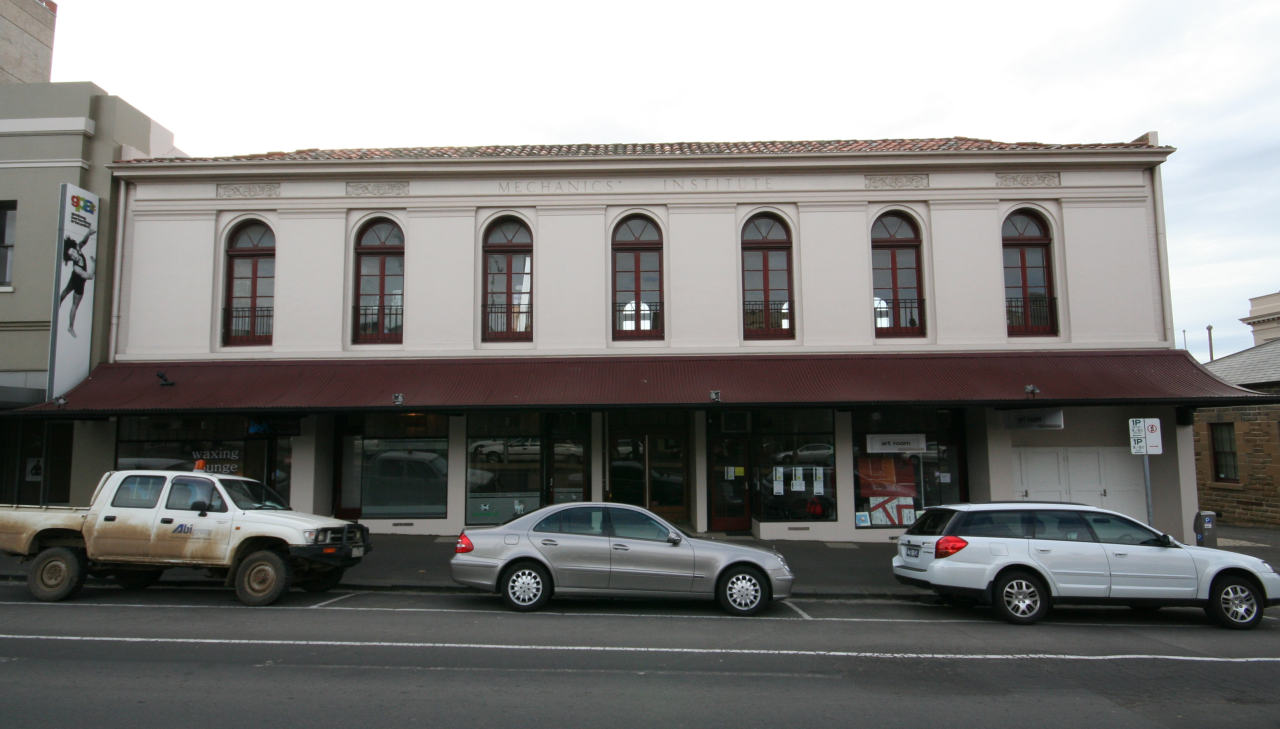 Mechanics Institute on Ryrie Street. Now part of Geelong Performing Arts Centre - Geelong Victoria Australia